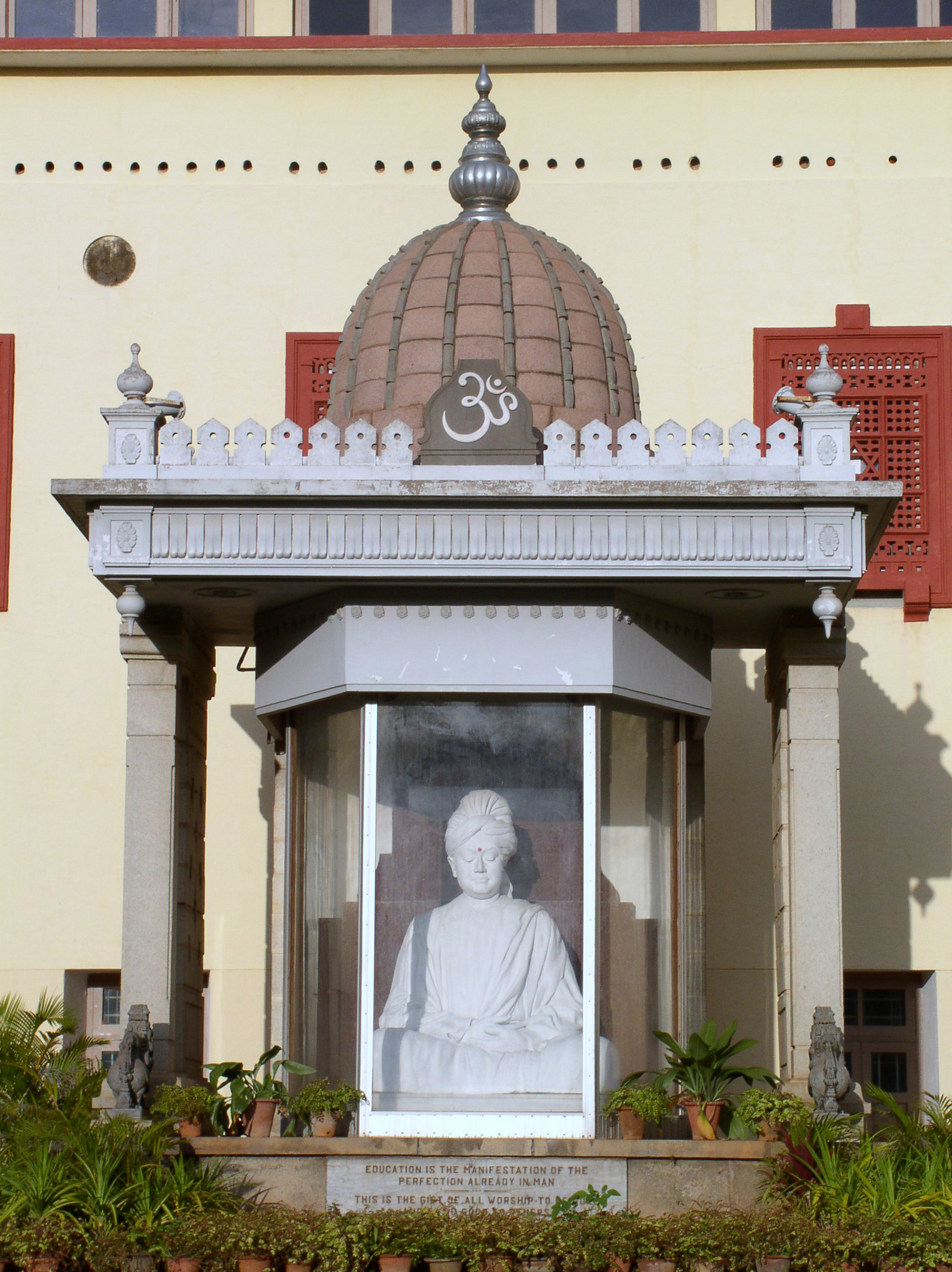 Statue of Swami Vivekananda at Shri Ramakrishna Vidyashala, Mysore, India